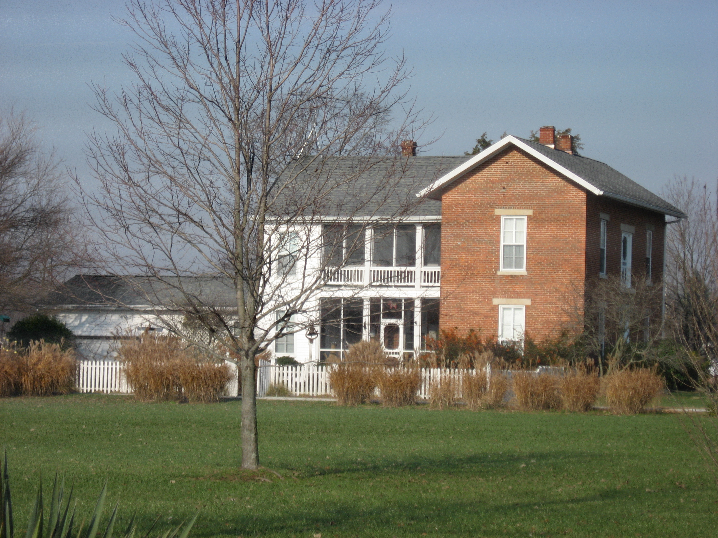 Southern side and front of the William R. Gant Farmhouse, located at 5890 S175E south of Columbus in Sand Creek Township, Bartholomew County, Indiana, United States. Built in 1864, it is listed on the National Register of Historic Places.